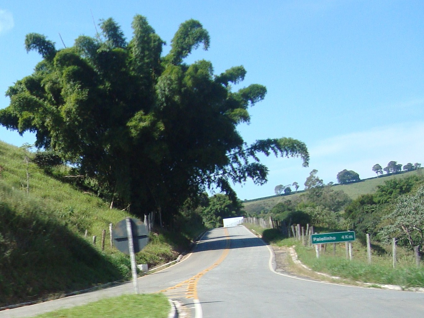 Road AMG-1555 in Poço Fundo, Minas Gerais, Brazil